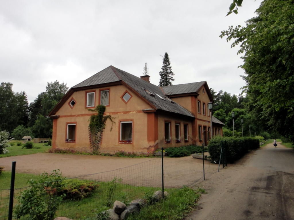 Koddiak manor houseLatviešu: Rozēnu muižas kungu māja